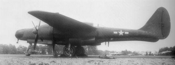 Northrop P-61A-5-NO Black Widow serial 42-5535 of the 422d Night Fighter Squadron - RAF Hurn, England.